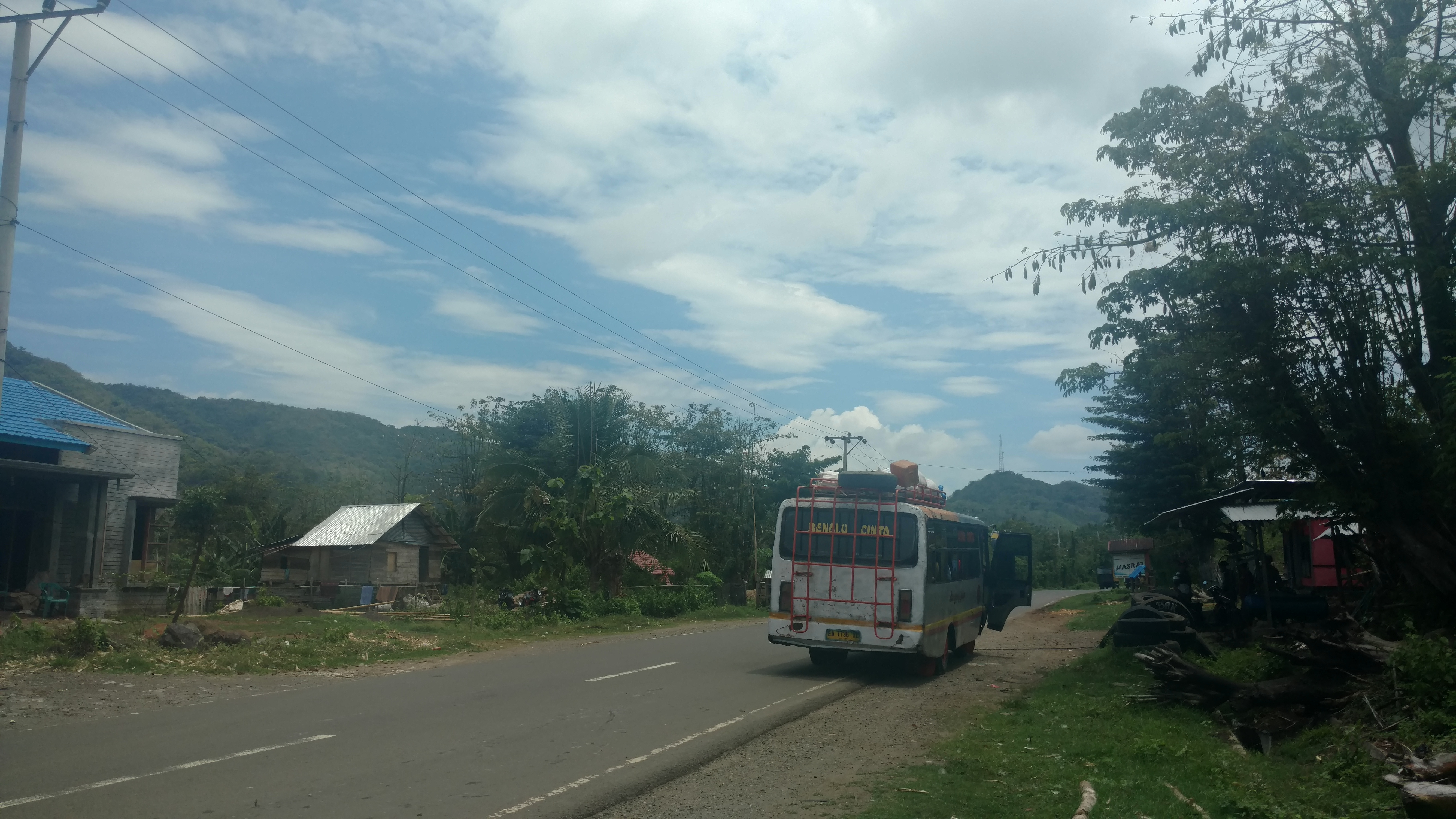 Bus in Sumbawa